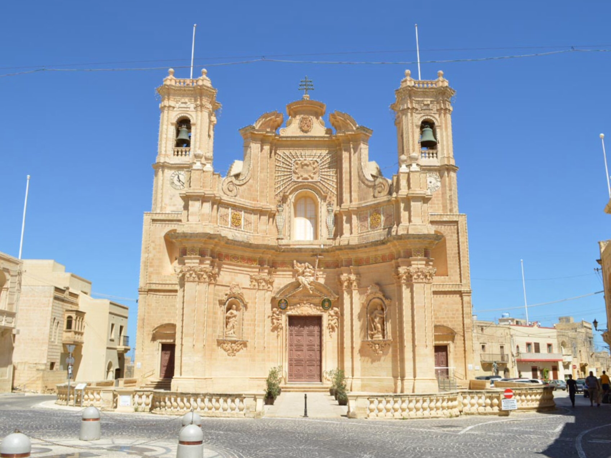 Parish Church of the Visitation of the Madonna This media is about Maltese cultural property with inventory number 00982.